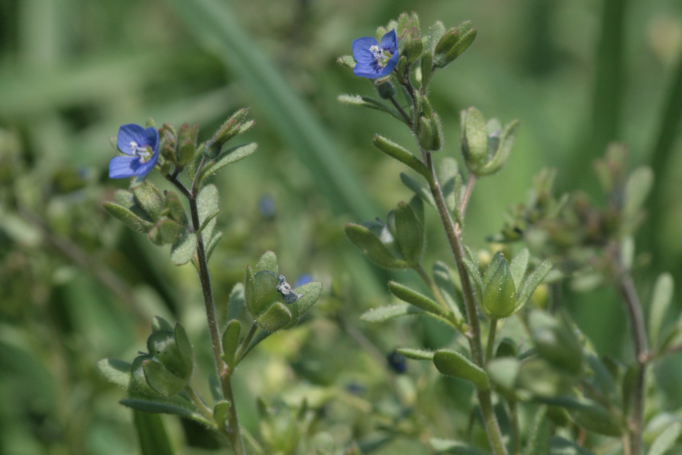 Veronica triphyllos